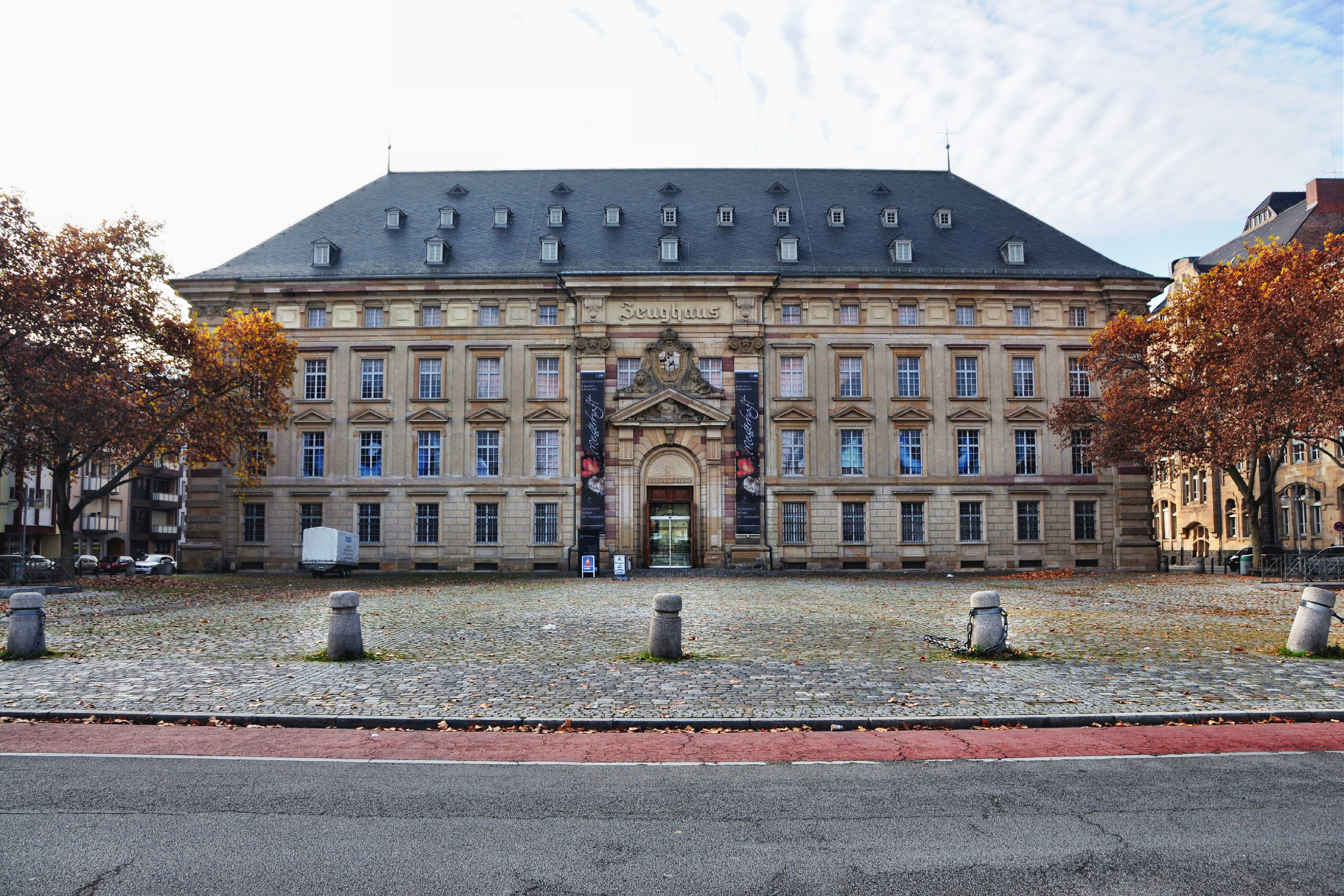 Zeughaus Mannheim, hist. arsenal, part of Reiss-Engelhorn museum